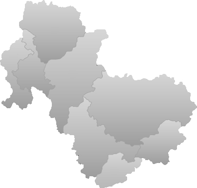 Map of Qingyuan in Guangdong province.